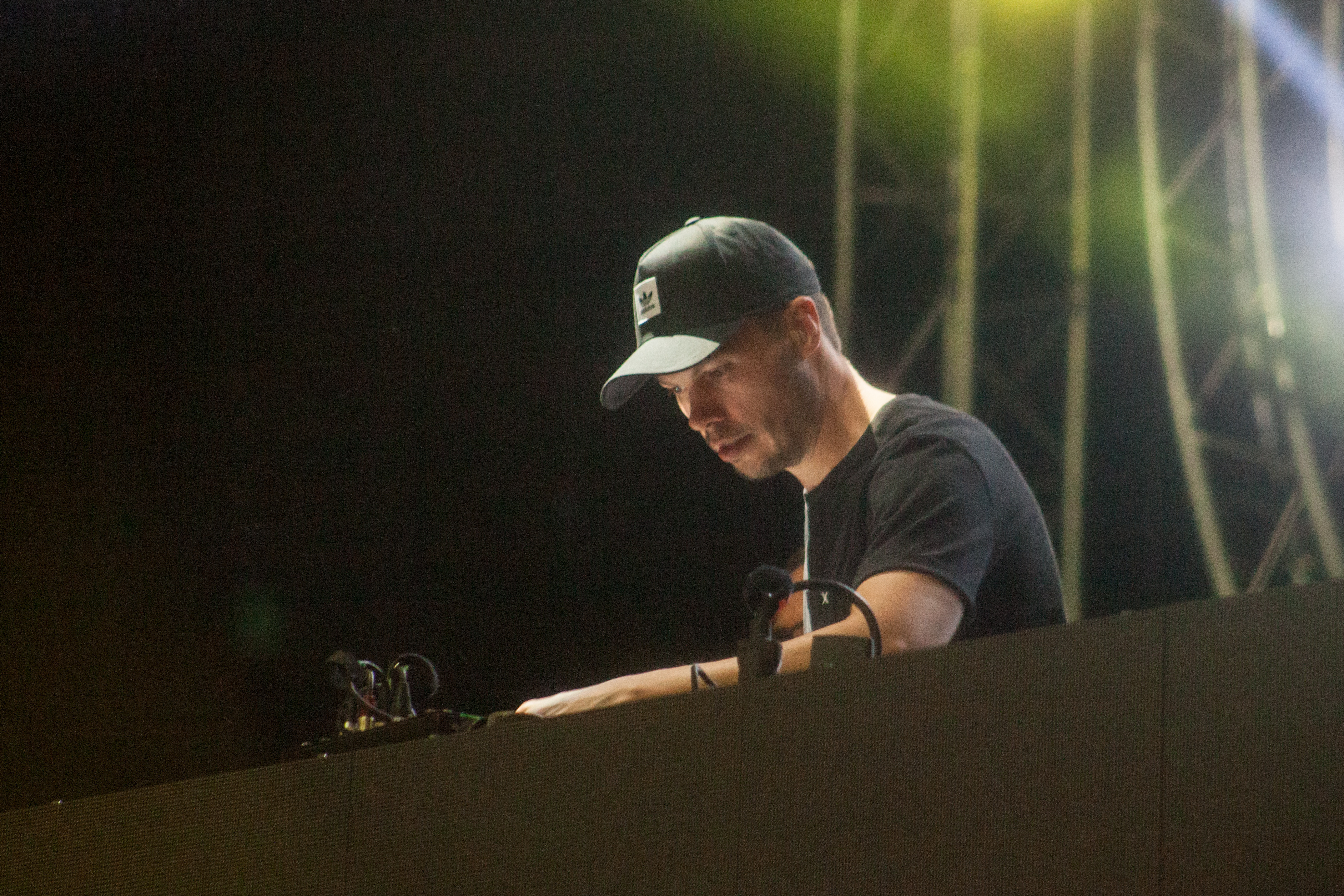 Simon James, a half of drum and bass duo Delta Heavy performing at electronic music festival Beats for Love (Ostrava, Czechia) on 5 July 2019